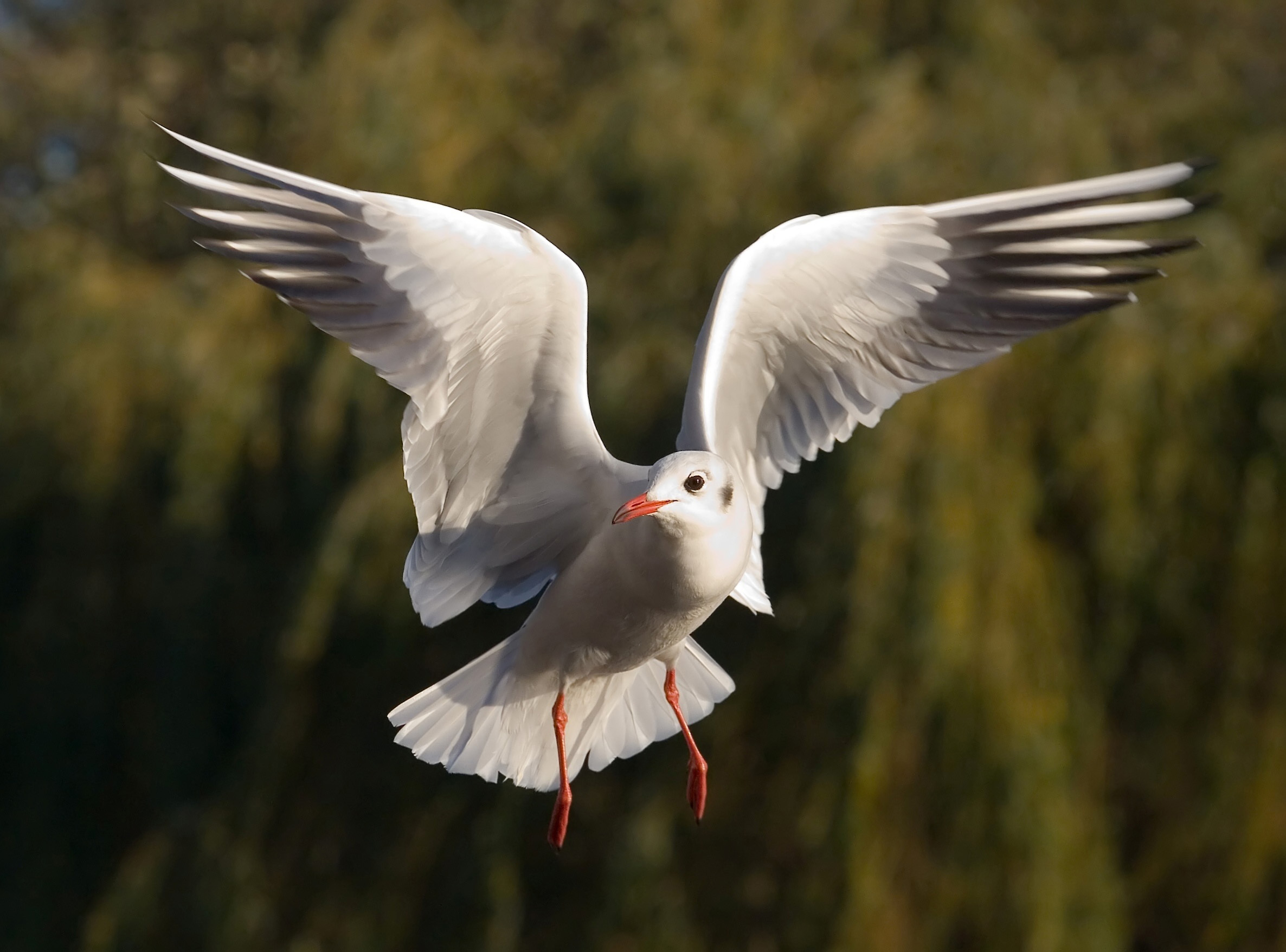 A Black-headed Gull in St James's Park, London, England. Although the gull typically has a black head, as the name suggests, its winter plumage around the head is white with black spots, visible on the side of the head. This image was taken by myself with a Canon 5D and 70-200mm f/2.8L lens at 150mm, ISO 1600 and f/8 with a 1/1250s shutter speed. This is the edited version which took out the noise and dead pixels.